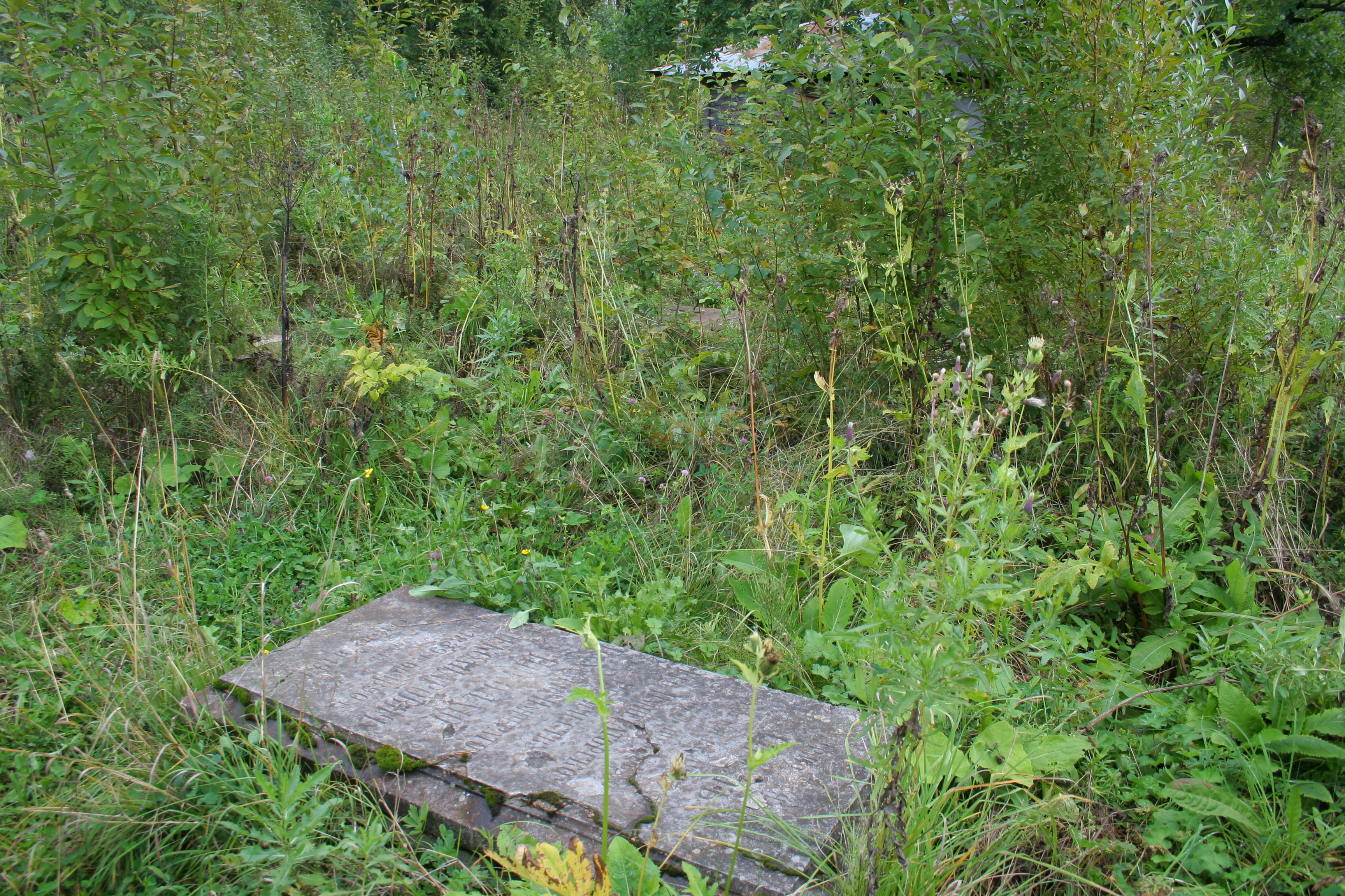 Views of Alexander Park in Pushkin, Saint Petersburg. Former stable and cemetery of royal horses.